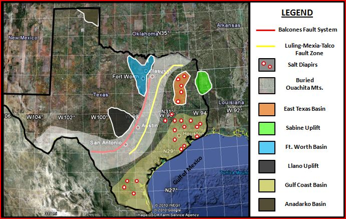 Structual features located within East and Central Texas